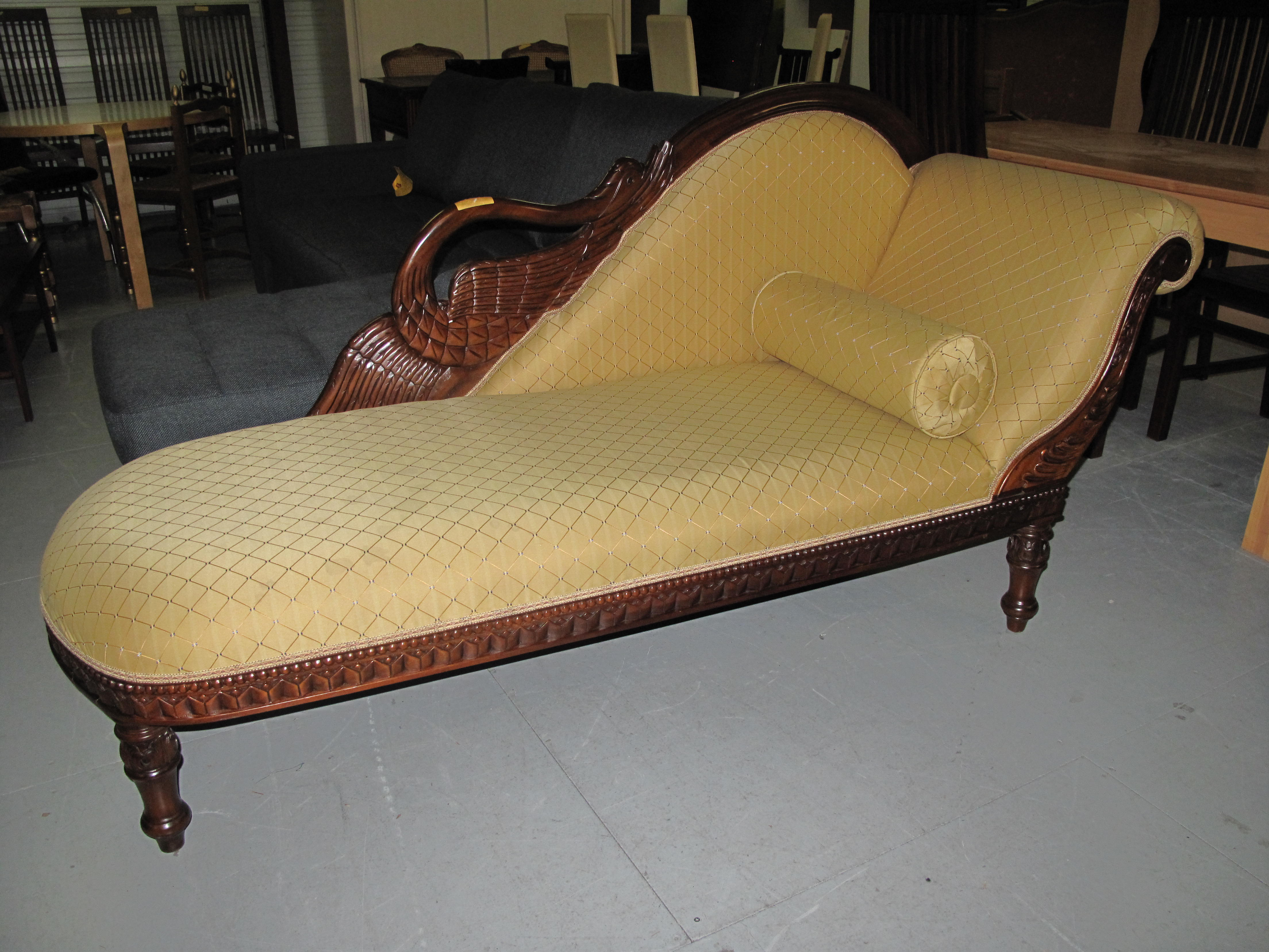 Fainting couch in a French second hand furniture shop.